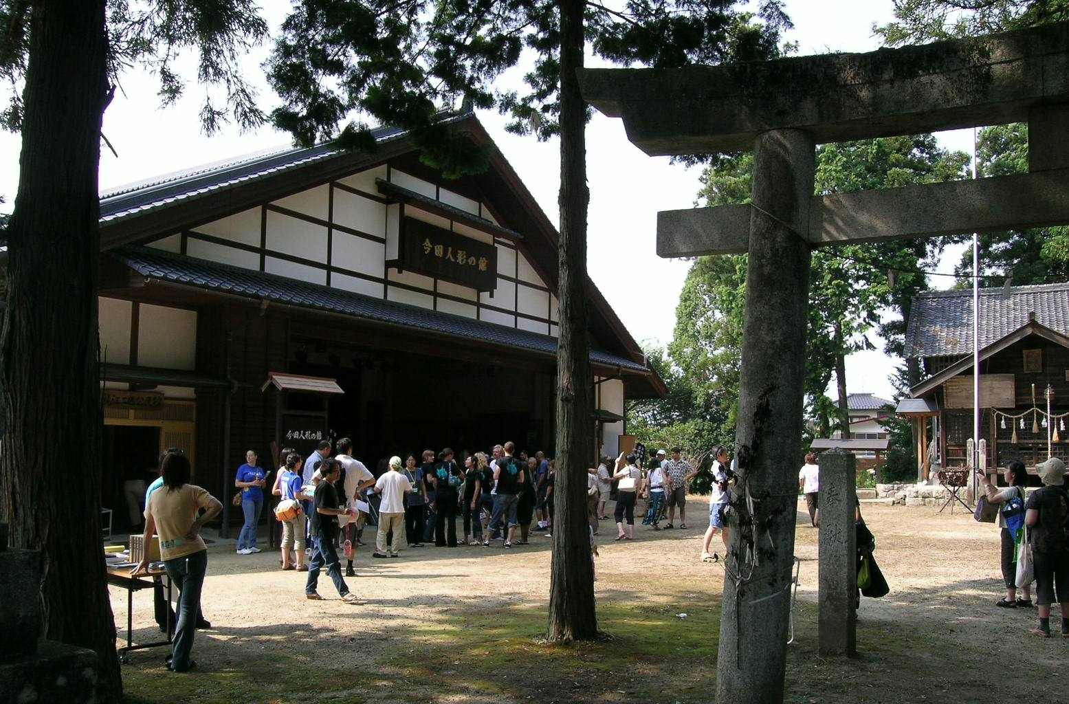 GFDL-self